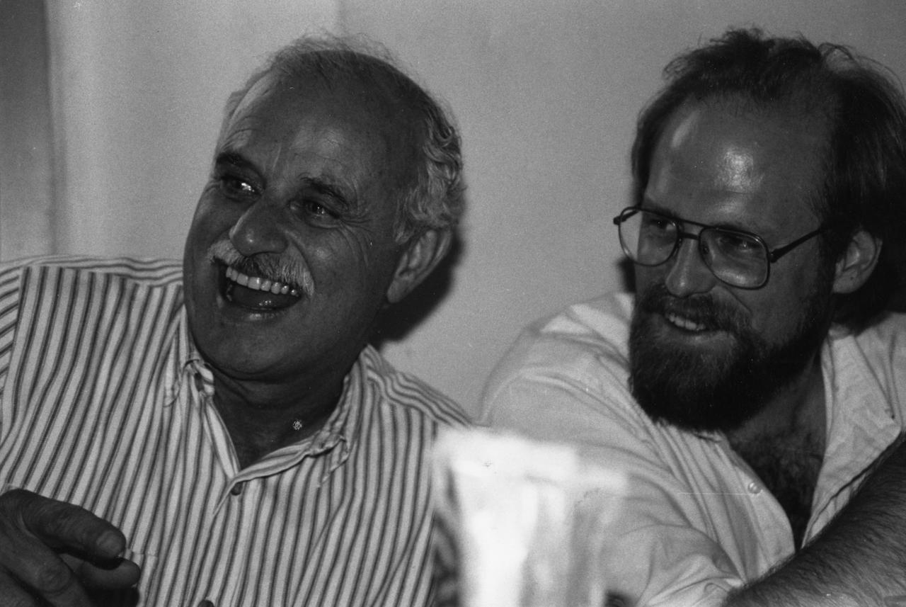 Image by Mia Stenstrom. I believe this was taken in 1986 or 87 at a Greenpeace board meeting in Costa Rica.